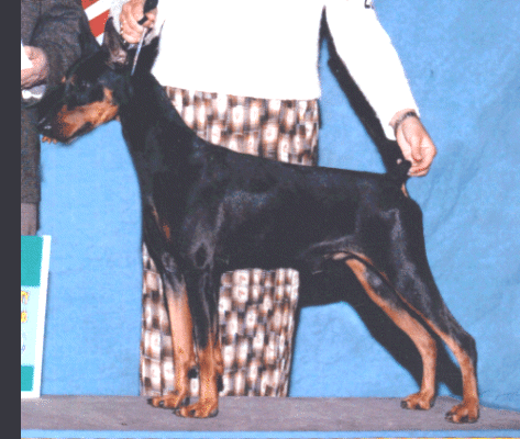 Ch Windamirs Hunter des Charmettes, Westminster Kennel Club German Pinscher Best of Breed winner, 2004, the first year the German Pinscher was eligible for competition at this show.